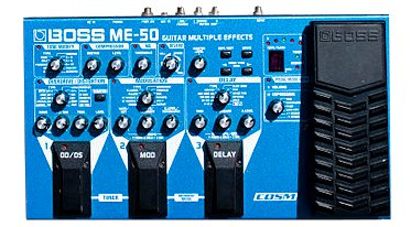 some different gear I've picked up over the last few years, not all of it is mine, and not all of my effects are there either! the Behringer Delay, Bass Synth and Volume Pedal aren't mine, although I have a Boss Delay and Distortion somewhere..... Top row: * Electro-Harmonix Little Big Muff * Boss Flanger BF-3 * Boss Phase Shifter PH-3 * Dunlop Crybaby Wah 95Q * Fender Volume Pedal Second row: * Line 6 Constrictor * Behringer Echo Machine EM600 * Boss Bass Synthesizer SYB-3 Third row: * Morpheus DropTune DT1 – Drop tuner/Octaver * Boss ME-50 Multiple Effects